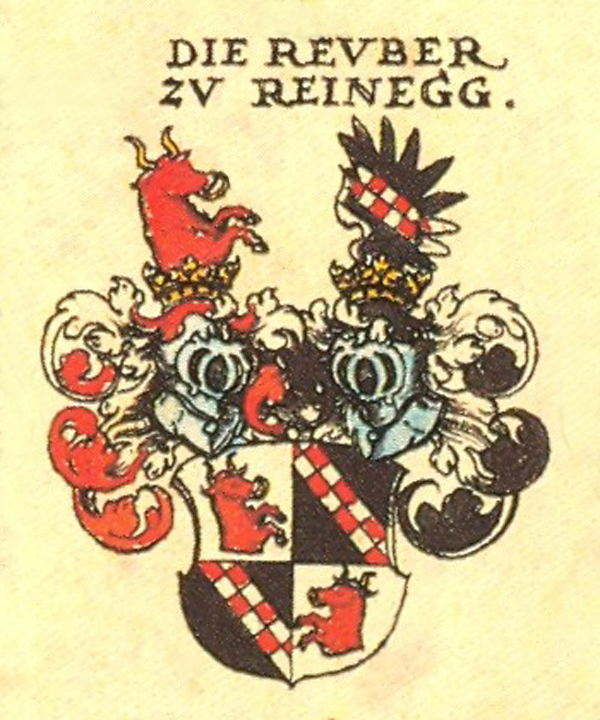 Coat of Arms of Rauber zu Reinegg, Austria